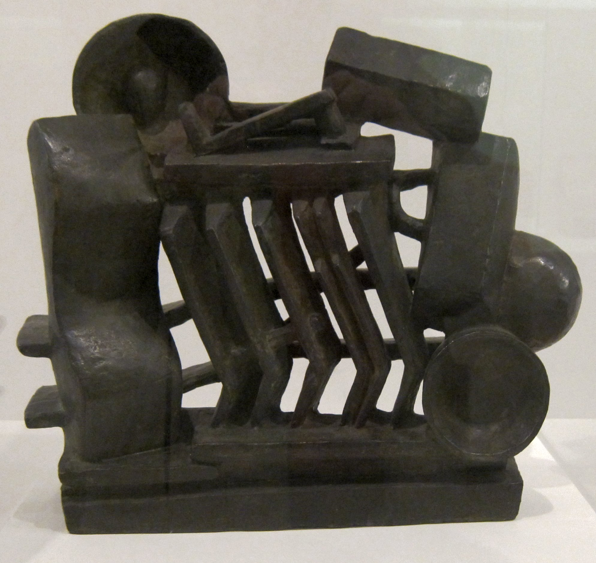 Composition (Man and Woman) bronze sculpture by Alberto Giacometti, 1927, cast 1964, Tate Modern